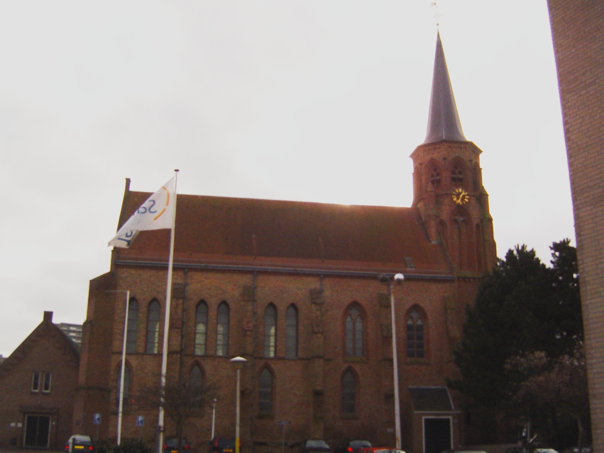 Abdijkerk, Loosduinen - the Hague